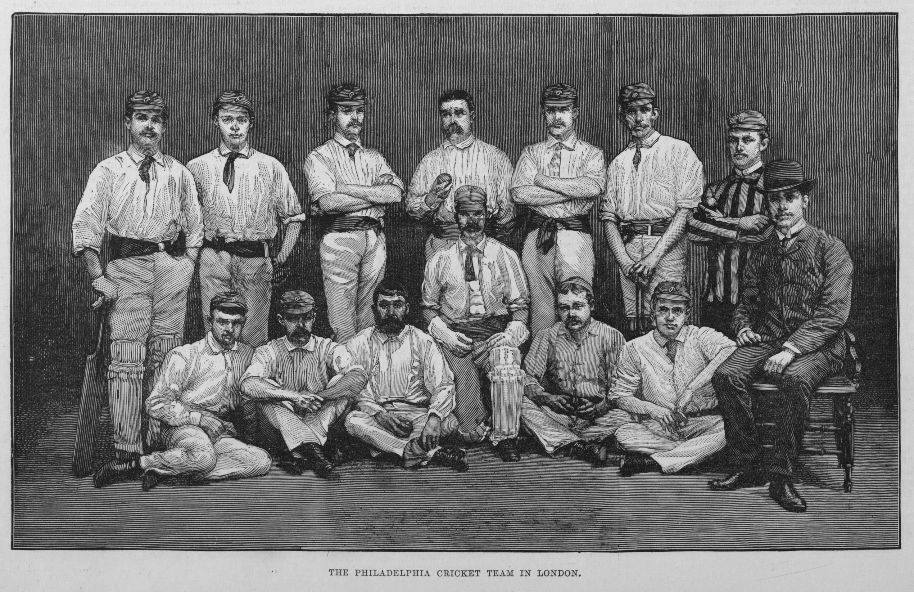 The Philadelphian Cricket Team depicted in an illustration.